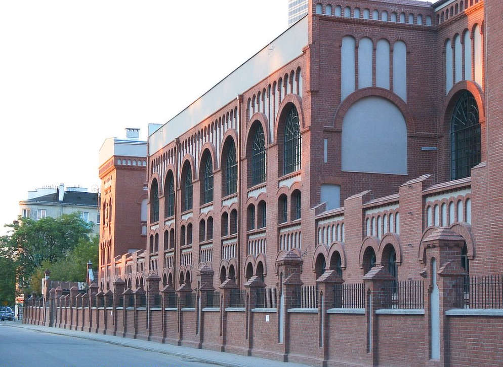 Warsaw Rising Museum